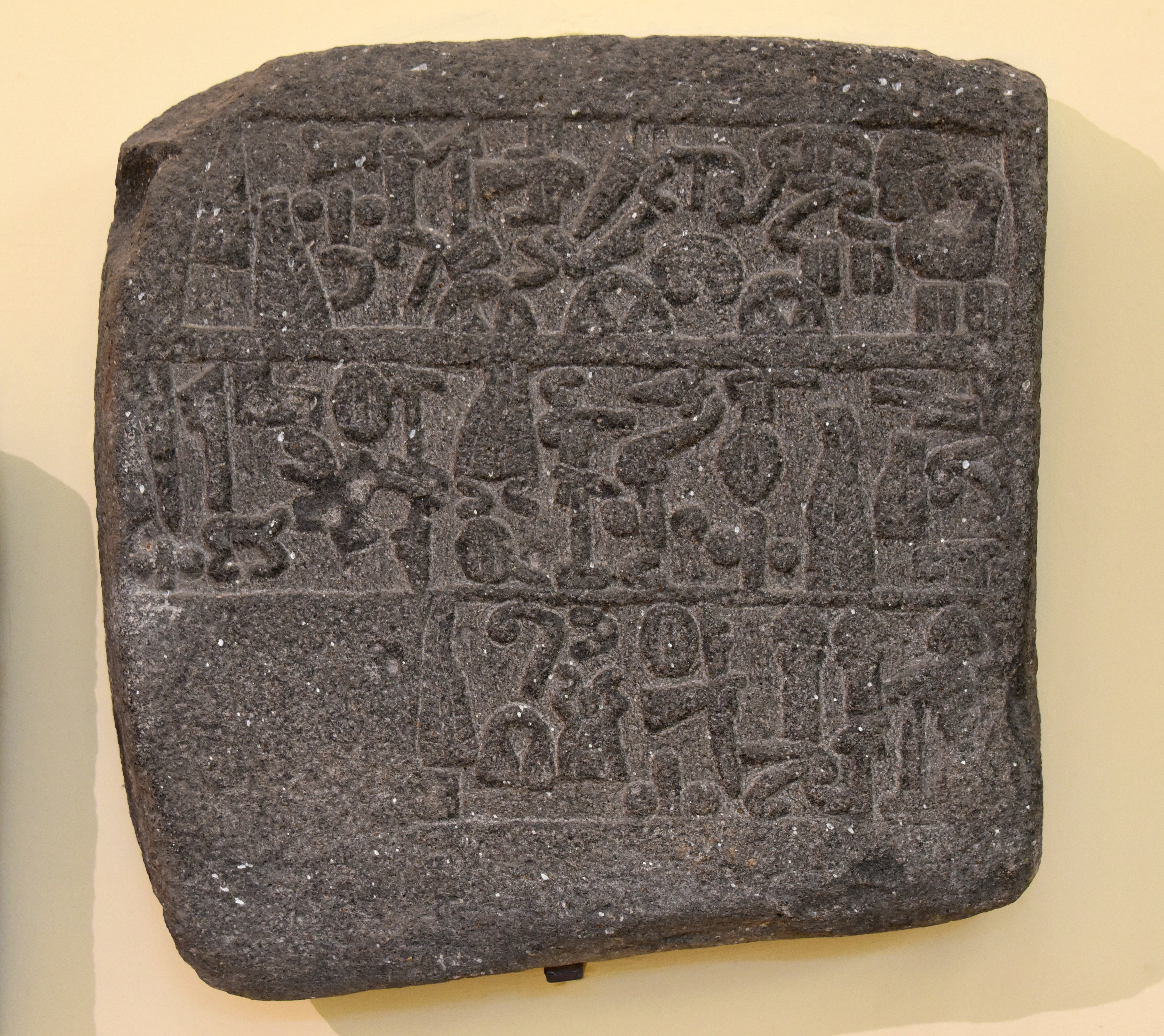 Basalt slab with Hittite hieroglyphic inscriptions mentioning the activities of king Urhilina and his son. Late Hittite period, 9th century BC. From Hama, in modern-day Syria. Museum of the Ancient Orient, Istanbul.